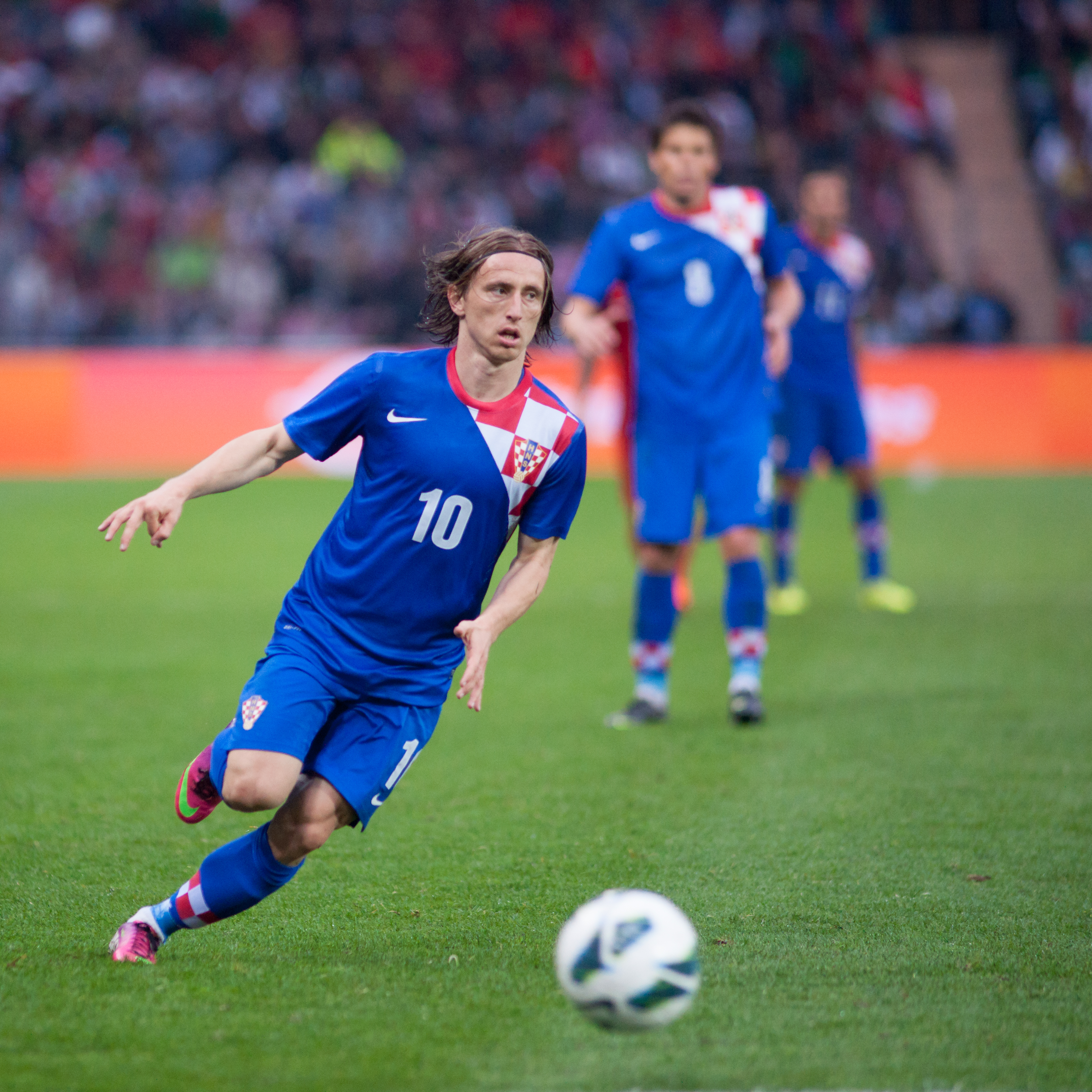 Croatia vs. Portugal, 10th June 2013